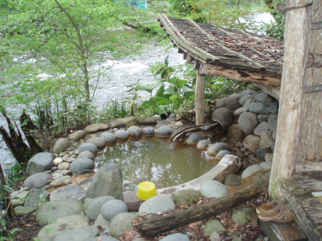 Rotenburo at Ginkonyu Onsen, Otoshibe, Hokkaido, Japan